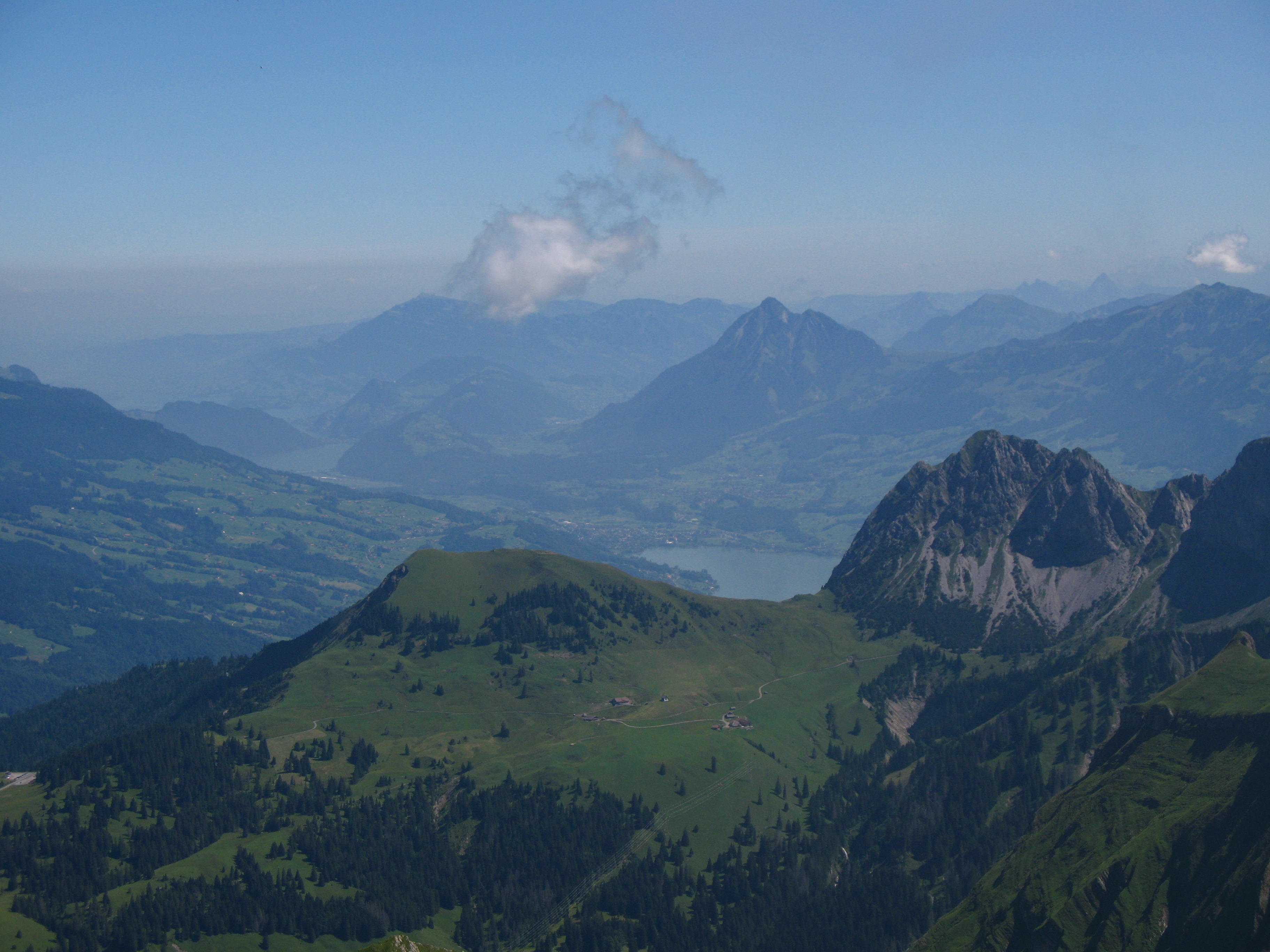 Sarnen am Lake Sarnen viewed from Rothorn, Brienz, Switzerland